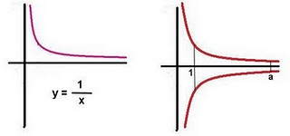 grafico de la funcion 1/x con dominio x mayor o igual a 1, girado alrededor del eje X